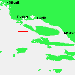 Locator map of island of Balkun, Croatia